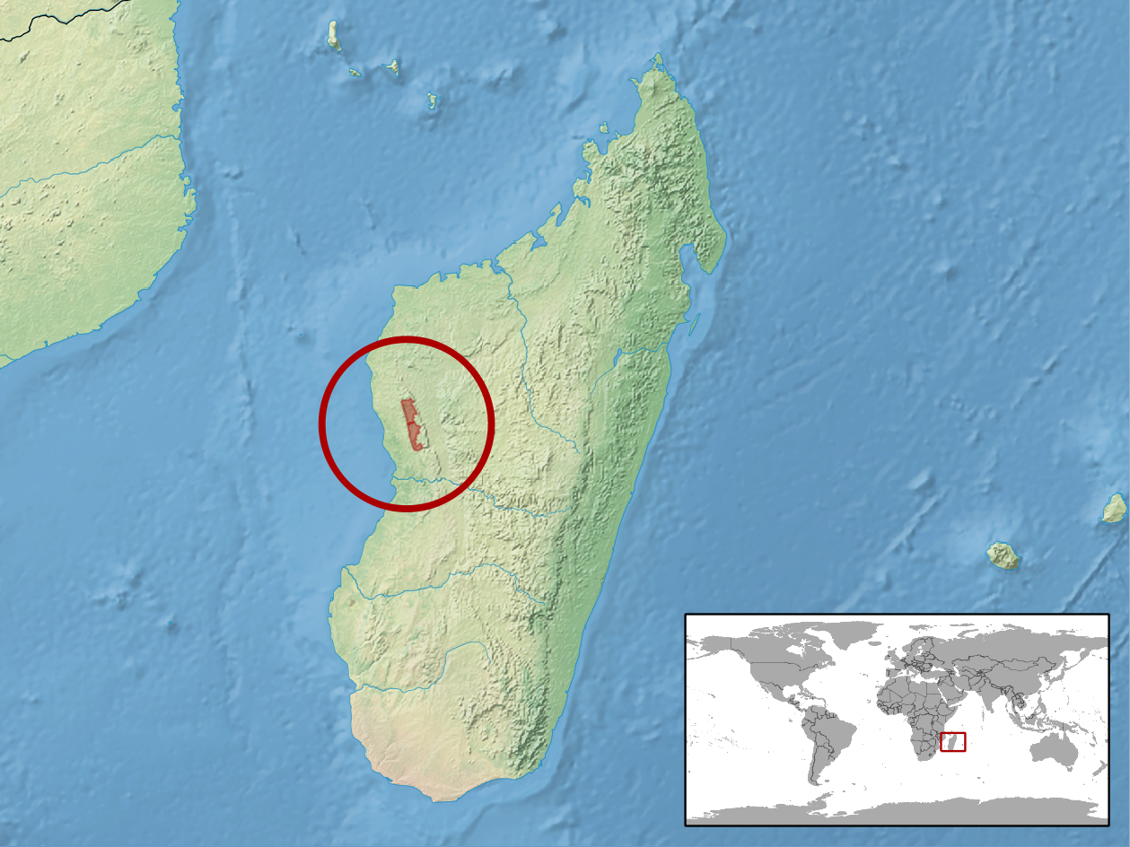 geographic distribution of Brookesia exarmata (Native: Madagascar)